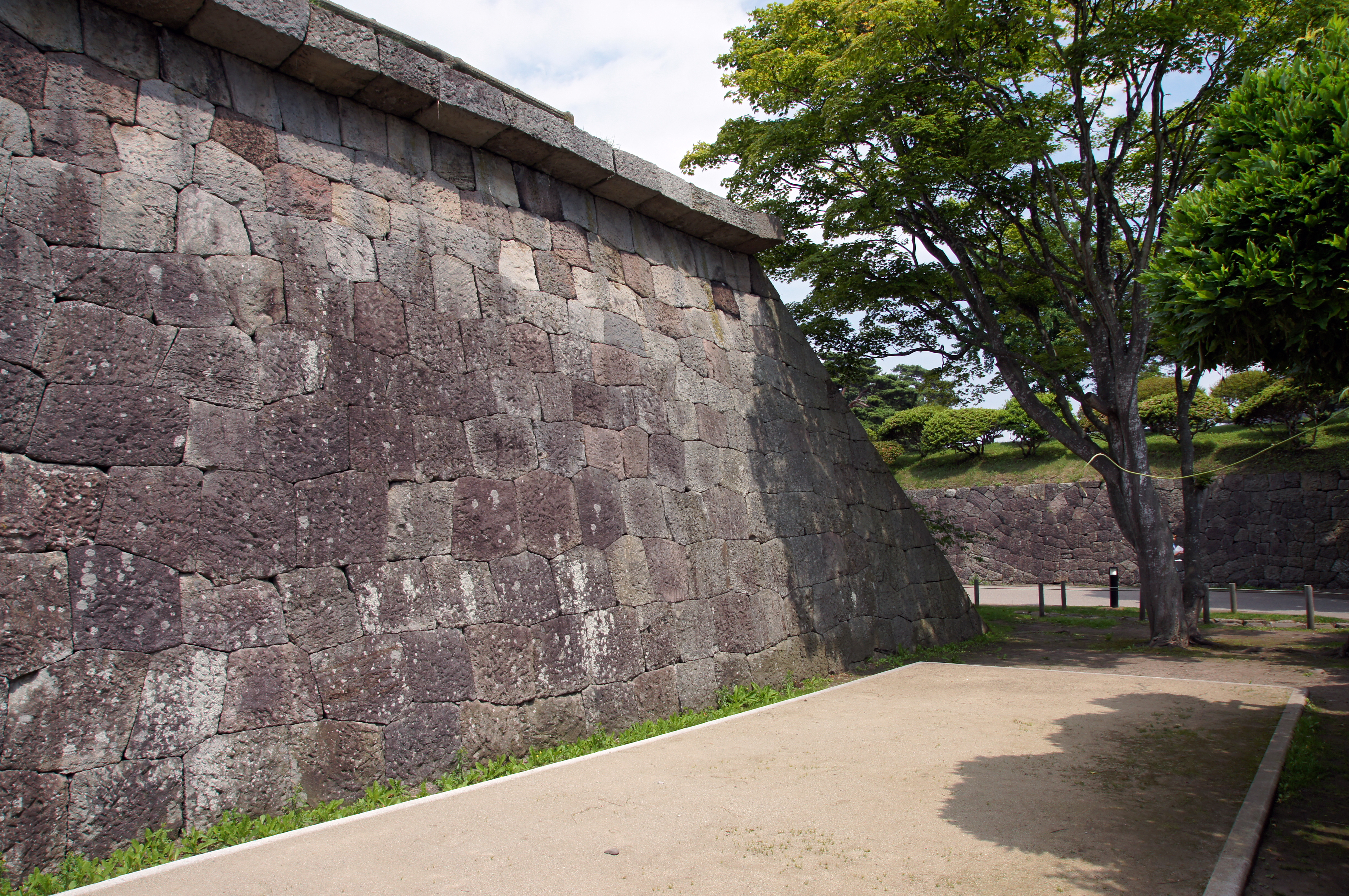 Goryōkaku in Hakodate, Hokkaido prefecture, Japan